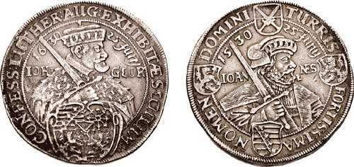 GERMANY, Saxony. Johann Georg I.1615-1656. AR Double Taler (57.18 gm, 1h). Centennial of the Augsburg Confession. Dated 1630. CONFESS LUTHER AUG EXHIBITÆ SECULUM (crossed axes), cloaked bust of Johann Georg right, holding sword in one hand; 1630 25 Juny IOH GEOR across fields, coat-of-arms below TURRIS FORTISSIMA NOMEN DOMINI, cloaked bust of Johann I right, holding sword in one hand; 1530 25 Juny IOAN NES across fields, four coats-of-arms around. Davenport 7604A; KM 416. Good VF, minor corrosion, minor edge marks.